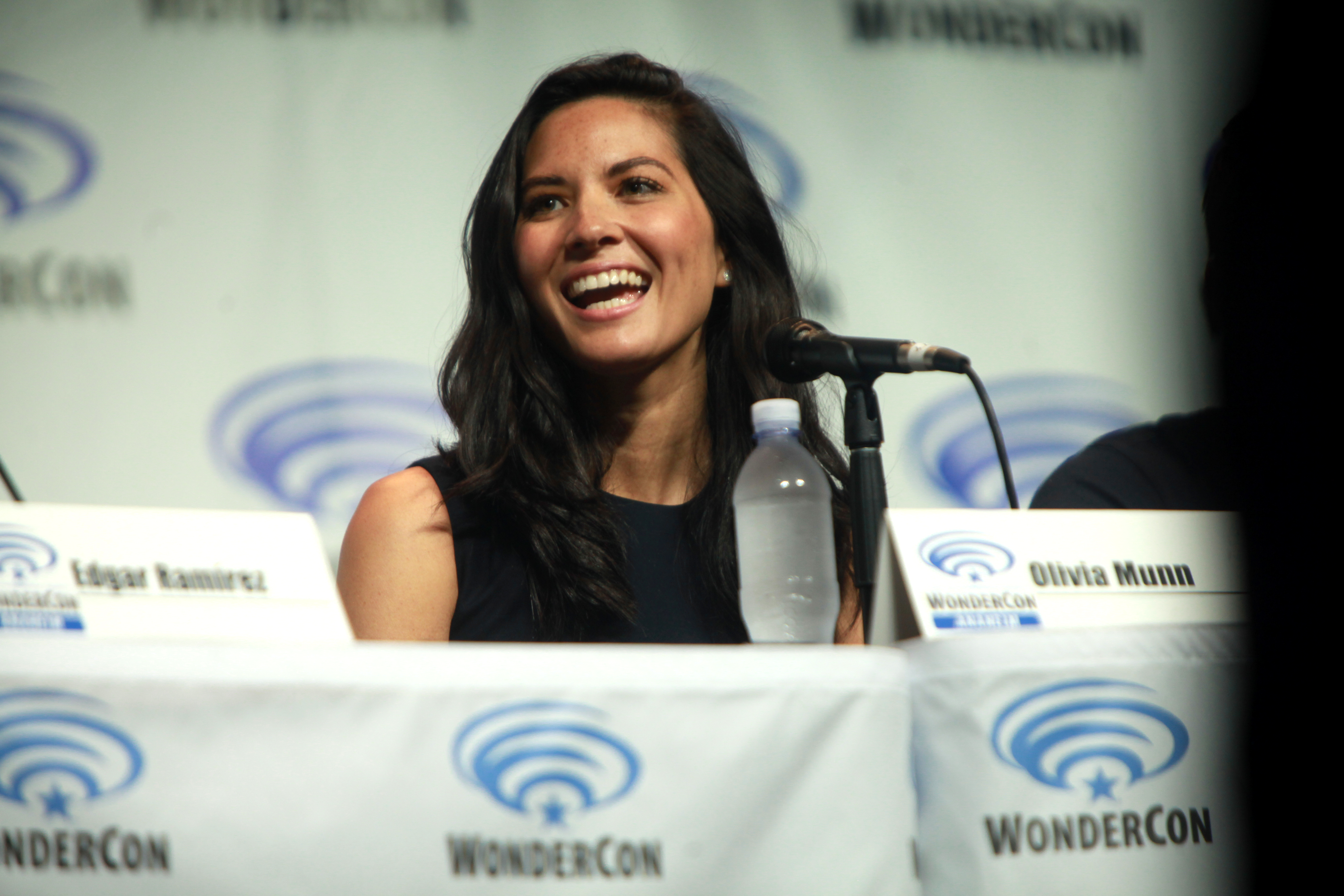 Olivia Munn speaking at the 2014 WonderCon, for "Deliver Us from Evil", at the Anaheim Convention Center in Anaheim, California.